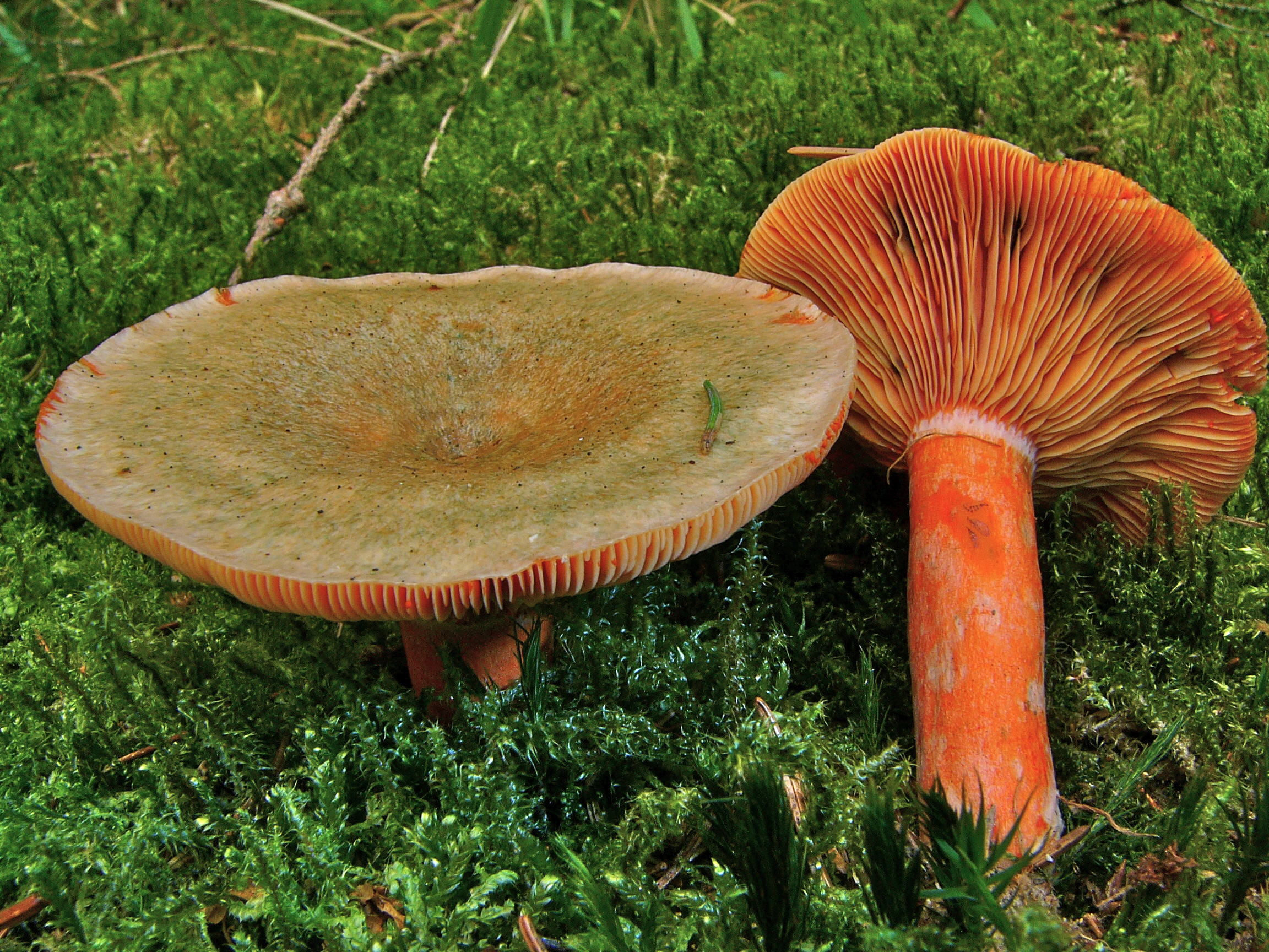 The making of this document was supported by the Community-Budget of Wikimedia Germany.